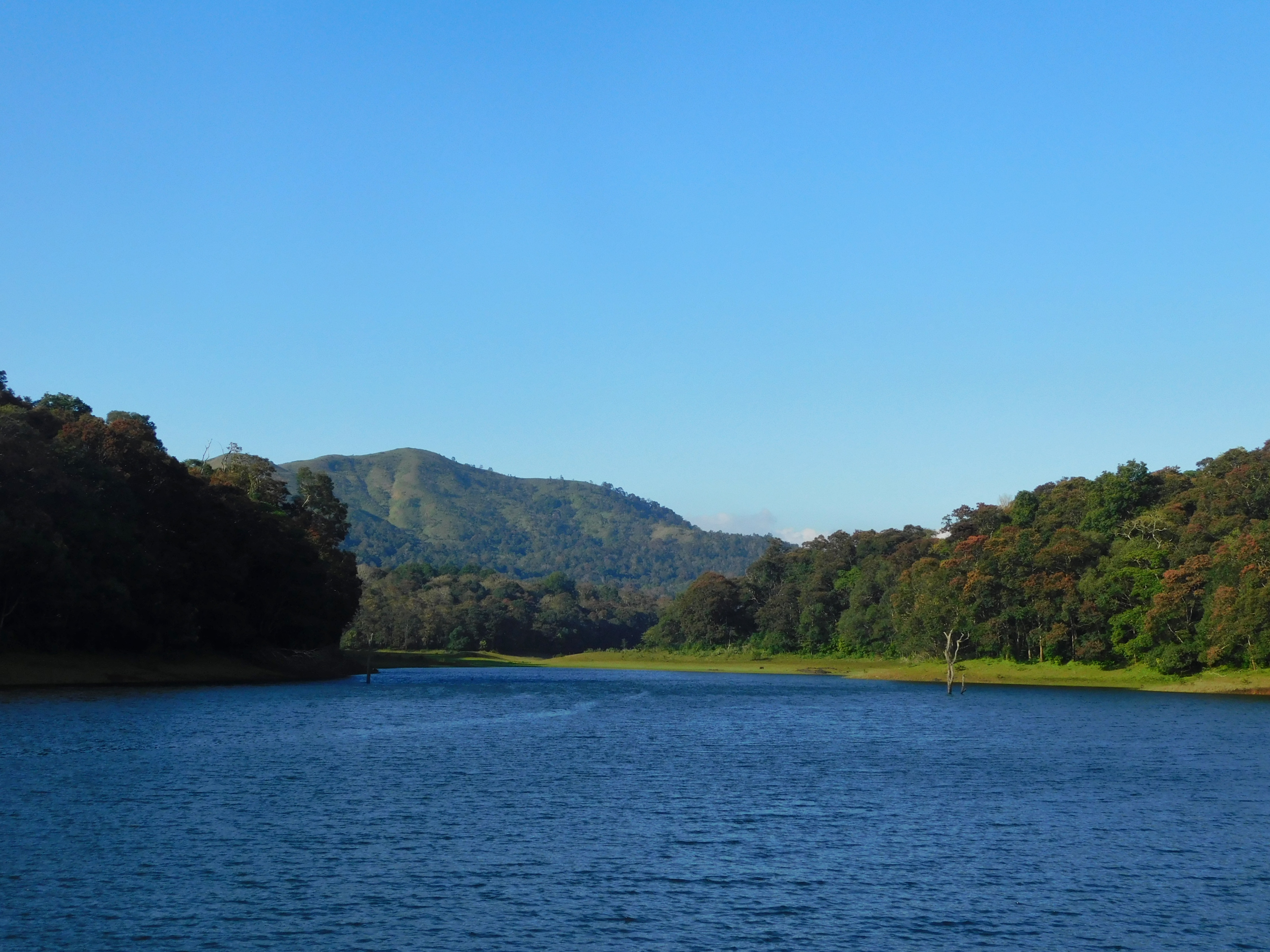 A landscape comprising of lake Periyar and mountains at Thekkady.